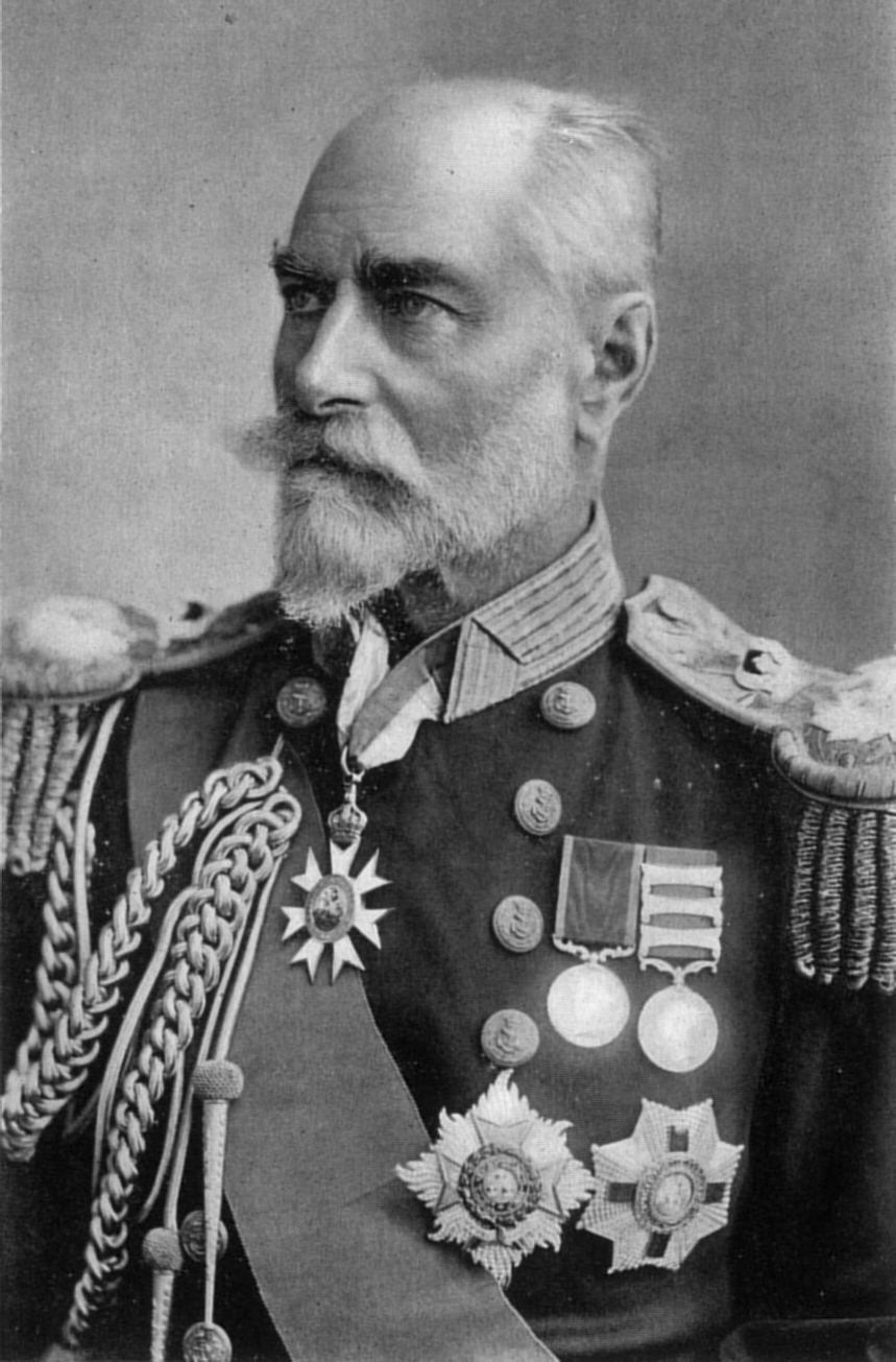 photo of Richard Meade, 4th Earl of Clanwilliam (3 October 1832 – 4 August 1907)